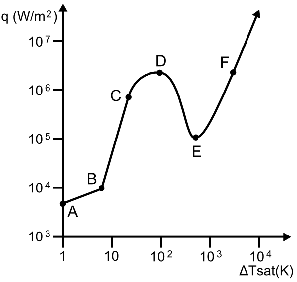 Boiling curve with units of thermal A-B:Before boiling B-D:Nucleate boiling D-E:Transition boiling E-F+:Film boiling C:DNB(Departure from nucleate boiling) point D:CHF(Critical heat flux) point E:MHF(Minimum heat flux) point